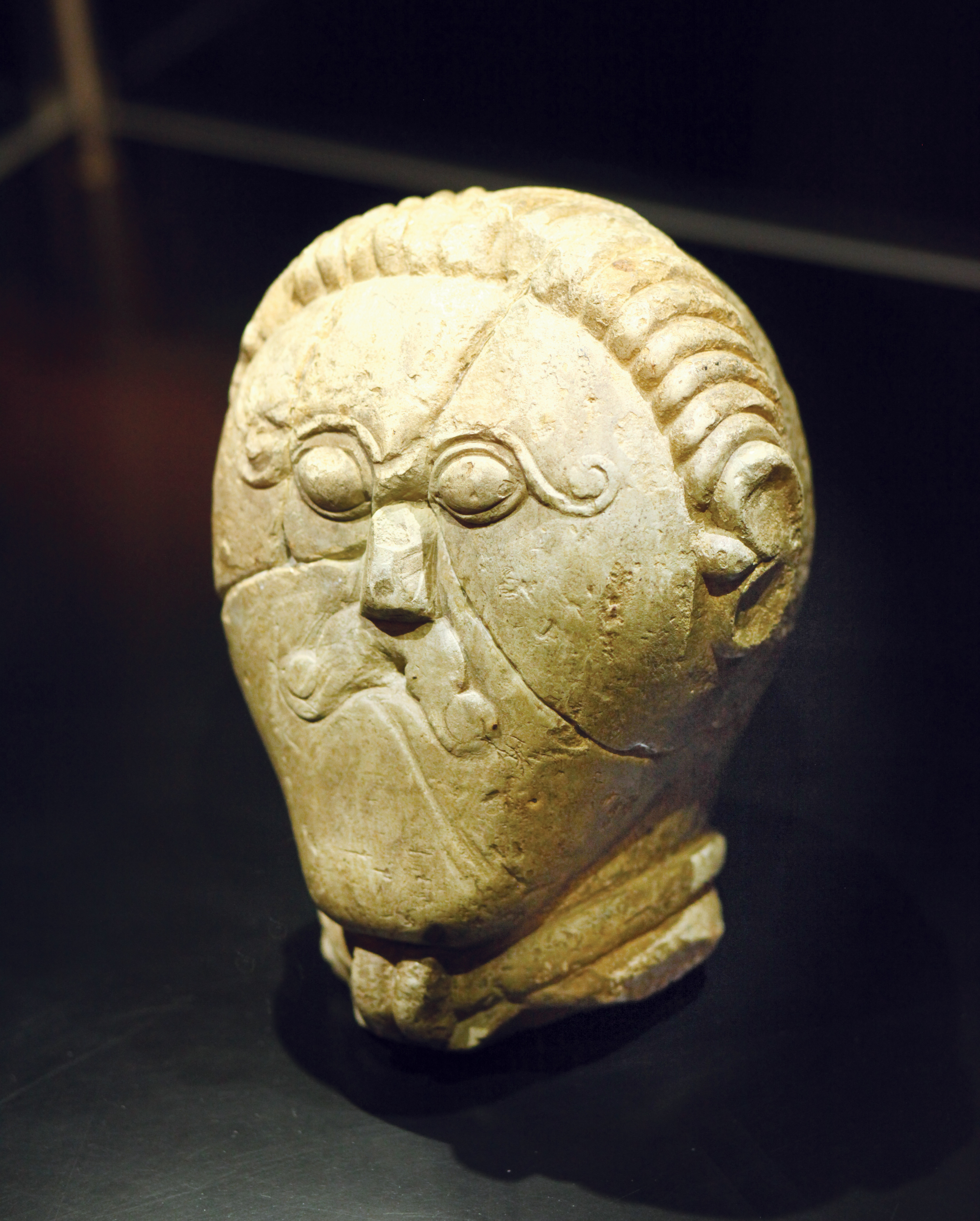 Stone sculpture of Celtic hero, from the sanctuary at Mšecké Žehrovice near Slaný, Czech Republic.